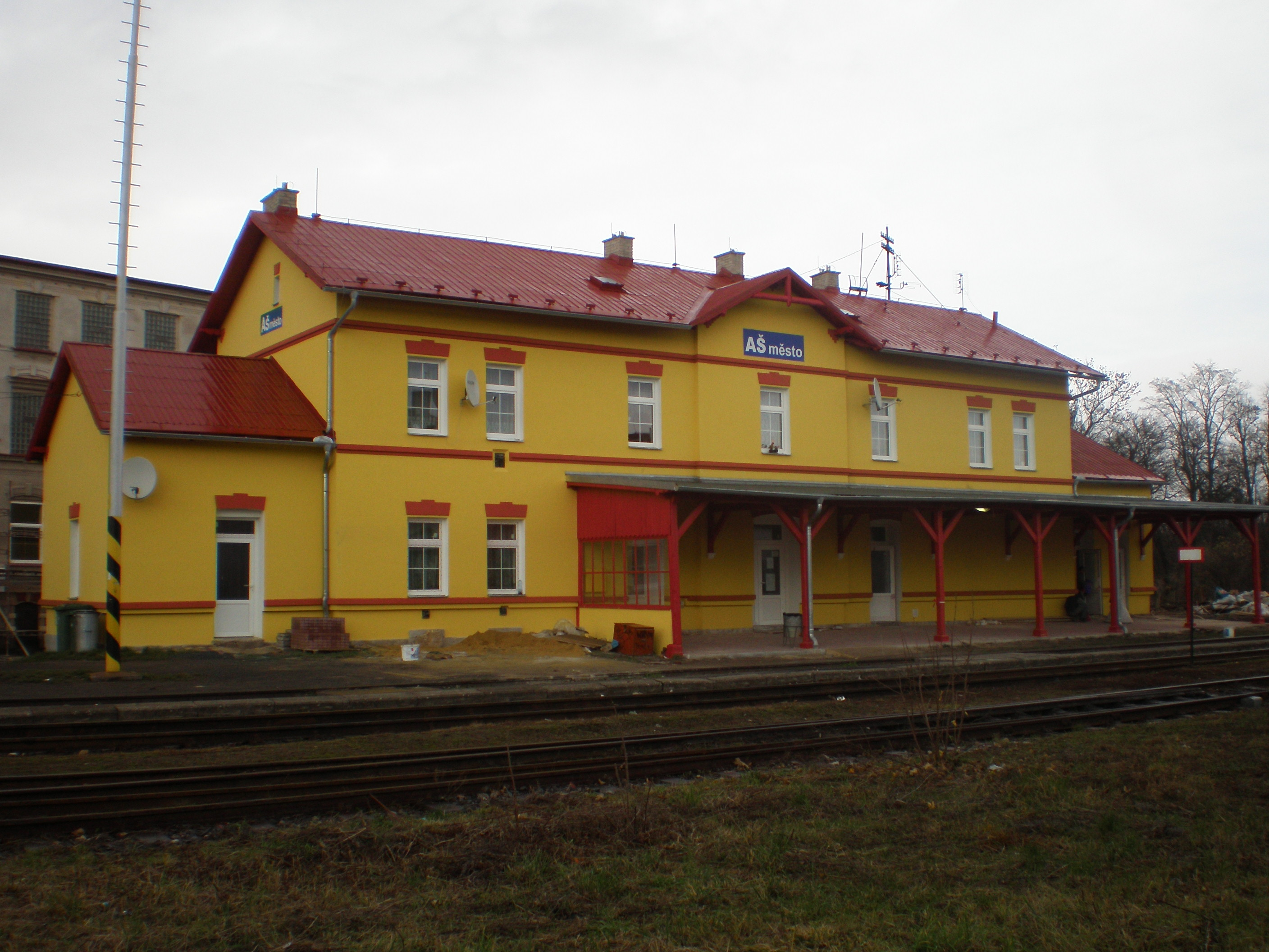 Train station Aš-město after reconstruction (2008)